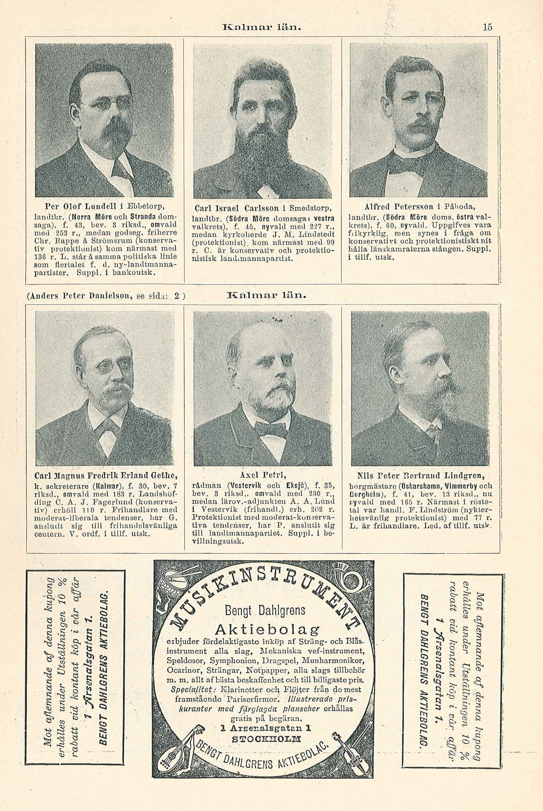 Page 15 of an album featuring portraits of all the members of the second chamber of the Swedish parliament (Sveriges riksdag) elected in 1897. This page featuring parts of the members representing the county of Kalmar.